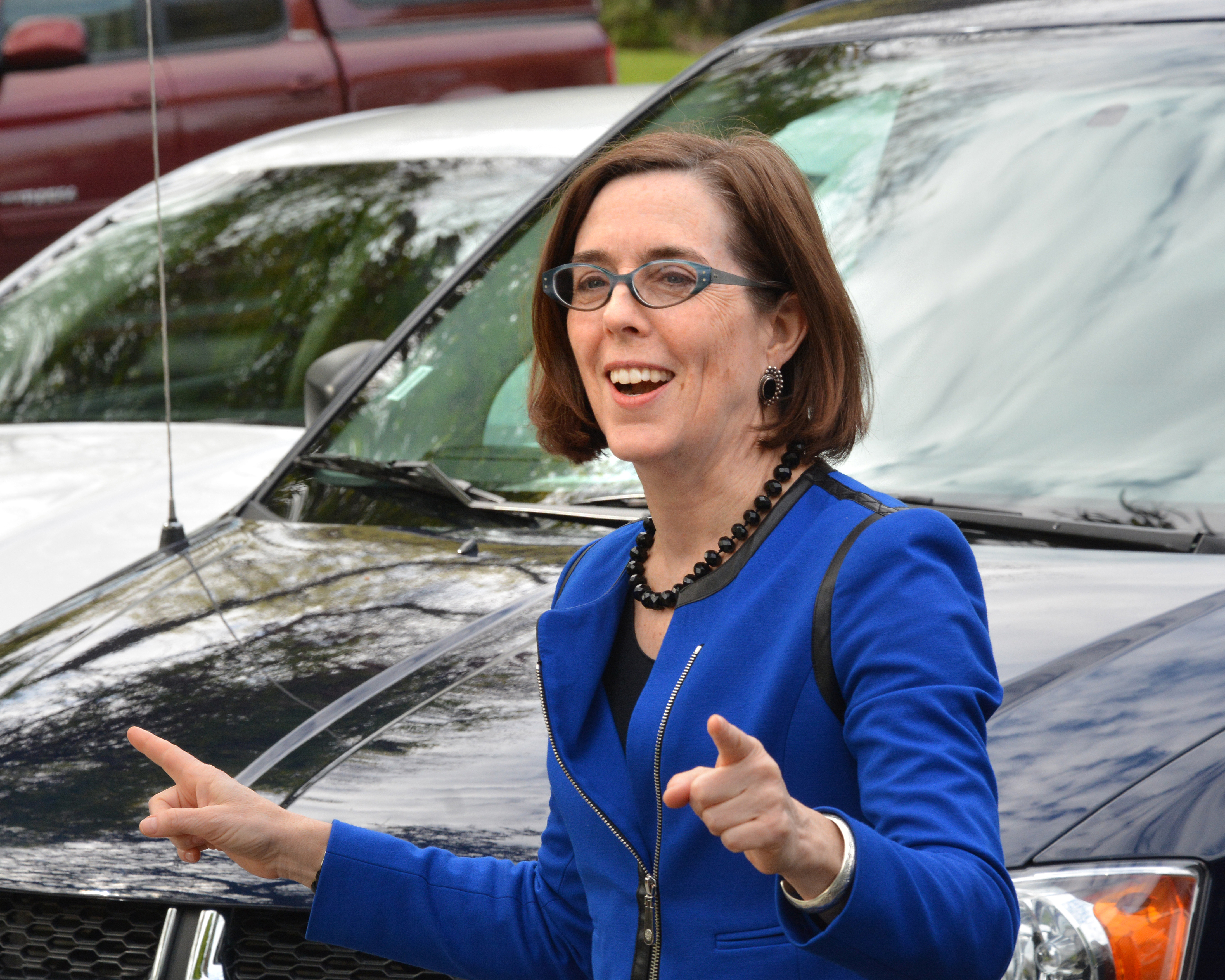 Gov. Kate Brown comes to Medford for a site visit to the Medford I-5 Viaduct.